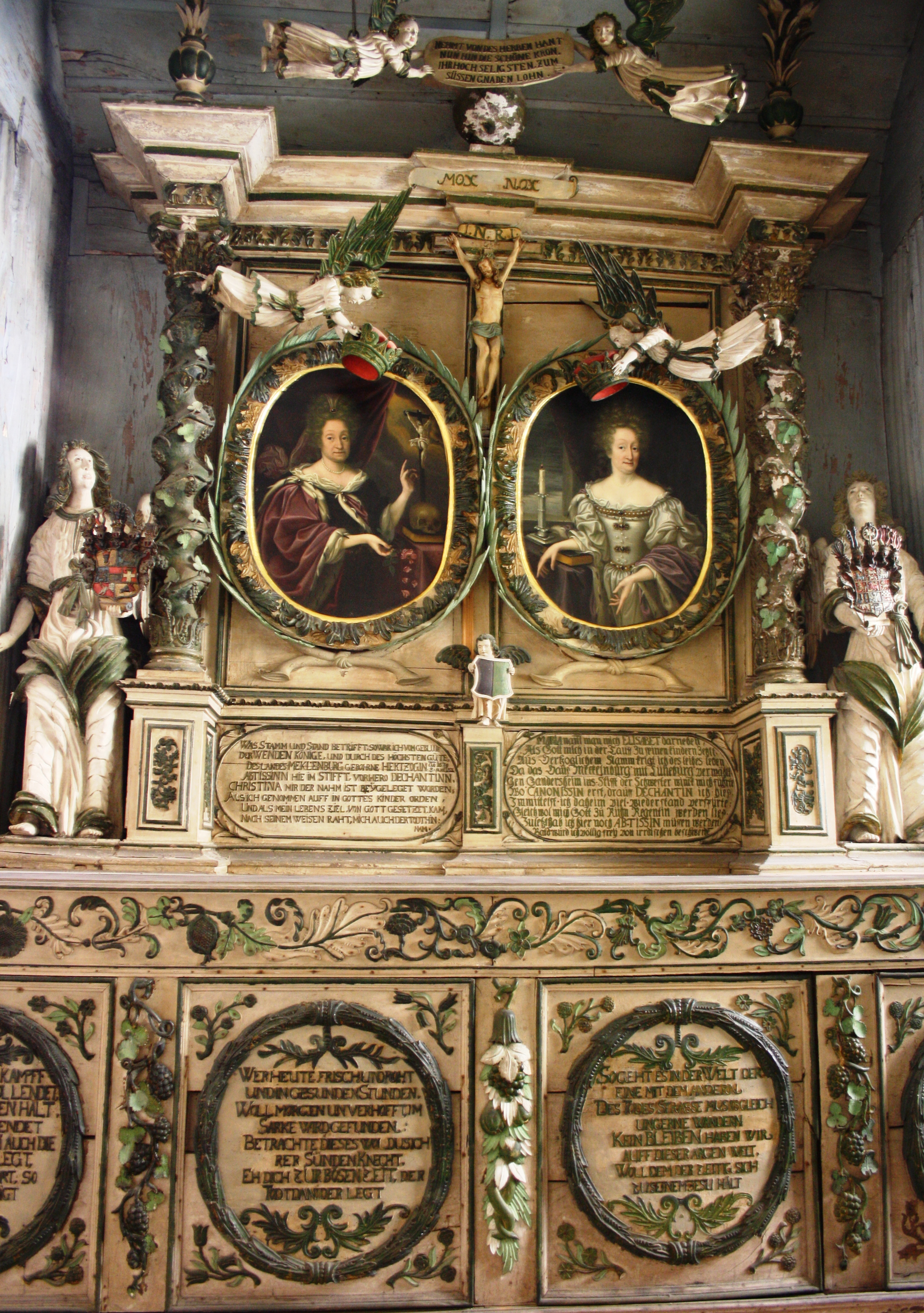 Abbeychurch in Gandersheim, Germany. Funerary monument for the abesses Christina (+1693) and Maria Elisabeth (+1713) of Mecklenburg.